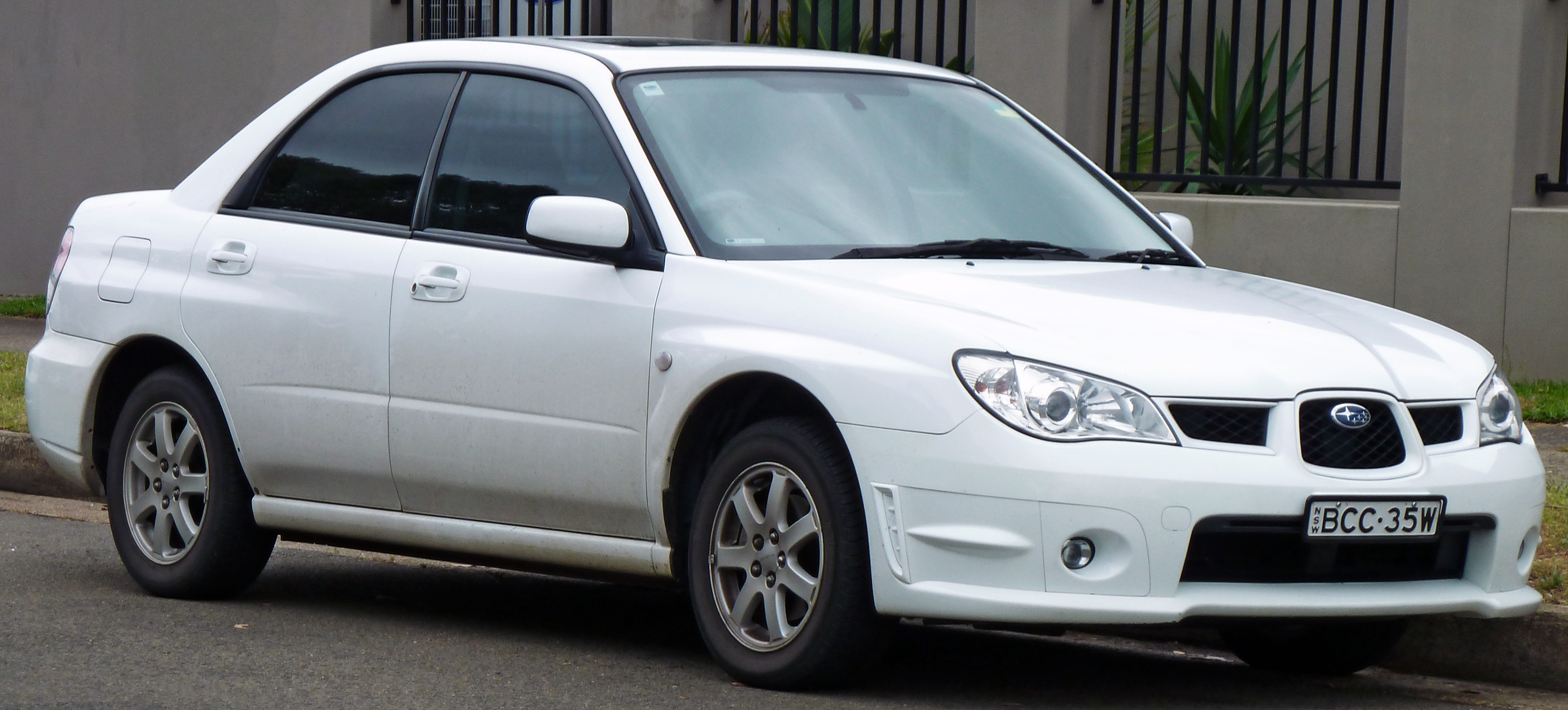 2007 Subaru Impreza (GD9 MY07) Luxury sedan. Photographed in Dolls Point, New South Wales, Australia.